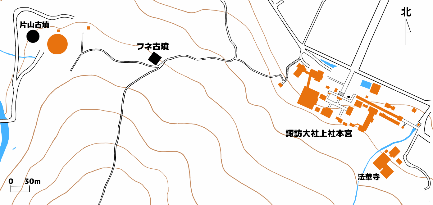 Map showing the location of Fune Kofun (Suwa, Nagano Prefecture)